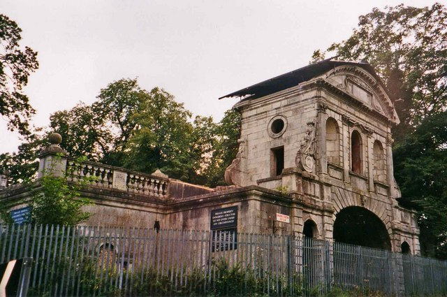 Temple Bar, Theobalds Park. Temple Bar in Theobalds Park, before it was taken down stone by stone, restored and re-erected in Paternoster Square near St Paul's Cathedral, London.